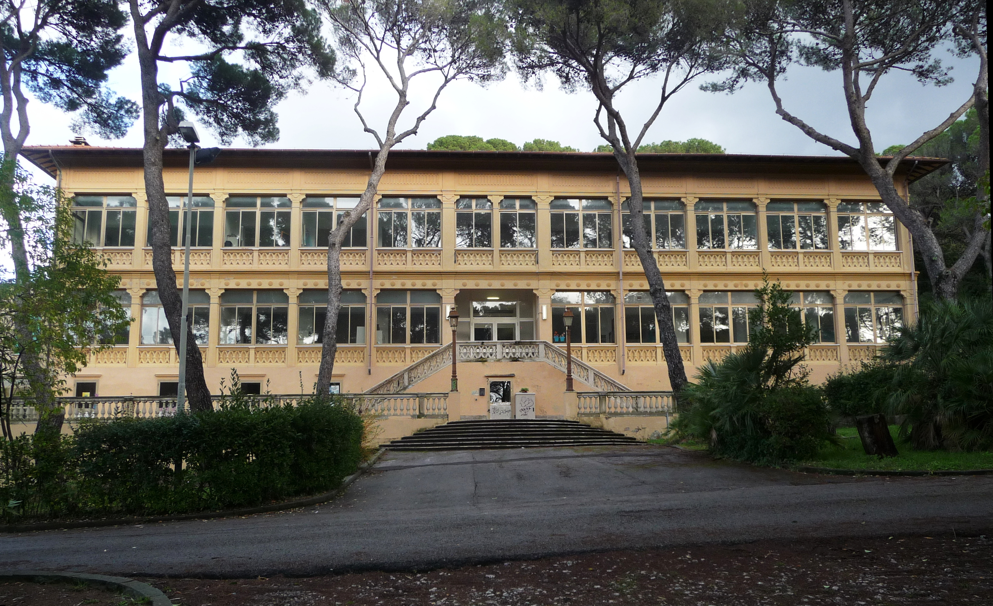 Building in the park Villa Corridi, Livorno, Italy